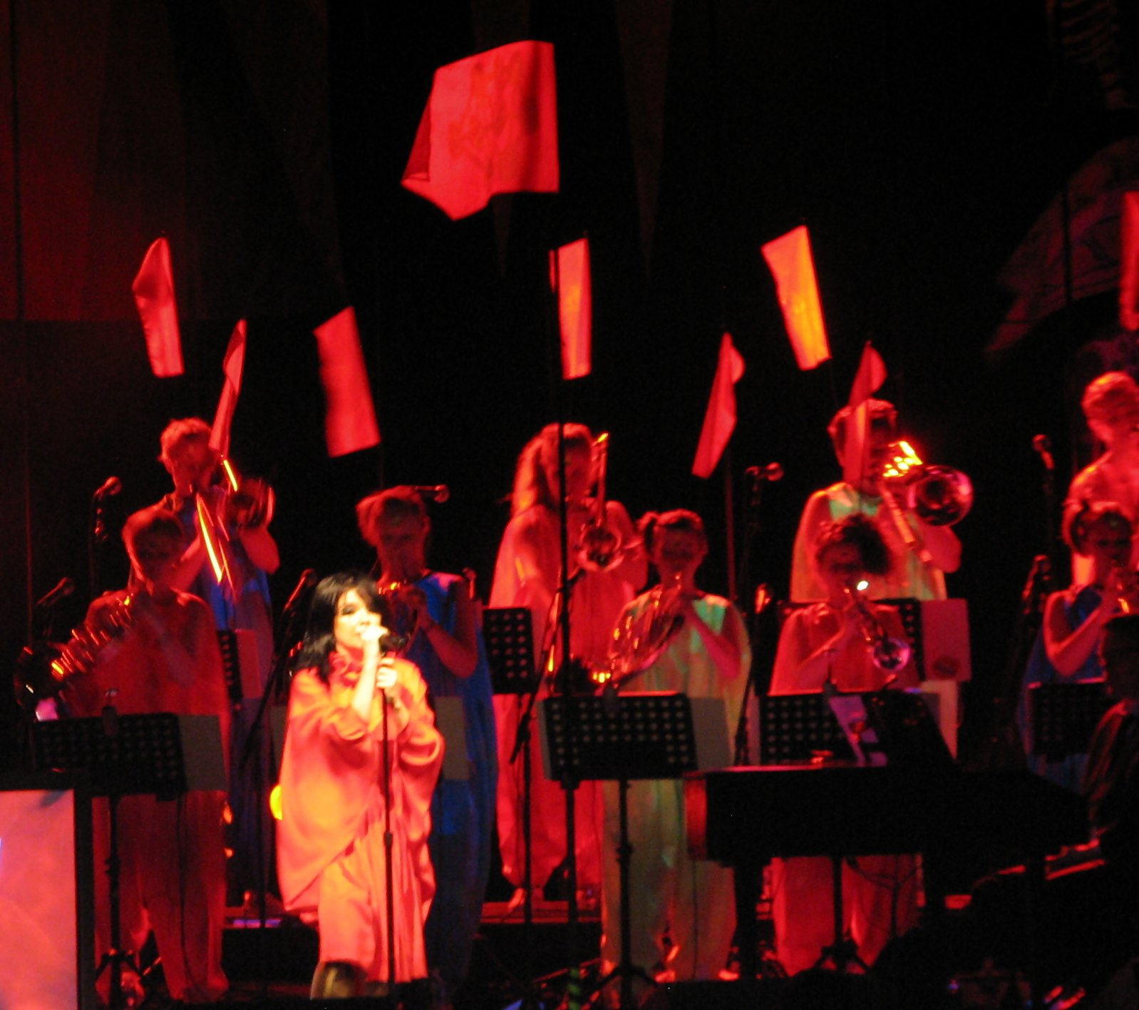 Björk Guðmundsdóttir performing at the Radio City Music Hall in New York City, New York, United StatesBjork at Radio City Music Hall 2-May-2007